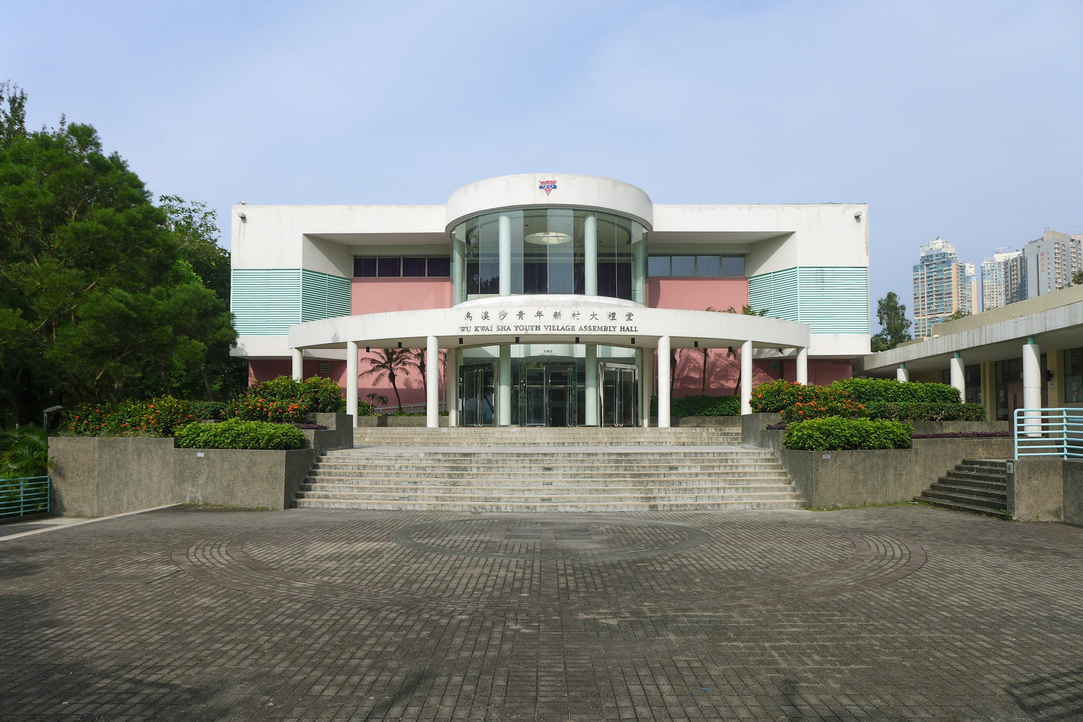 WKS Youth Village Assembly Hall